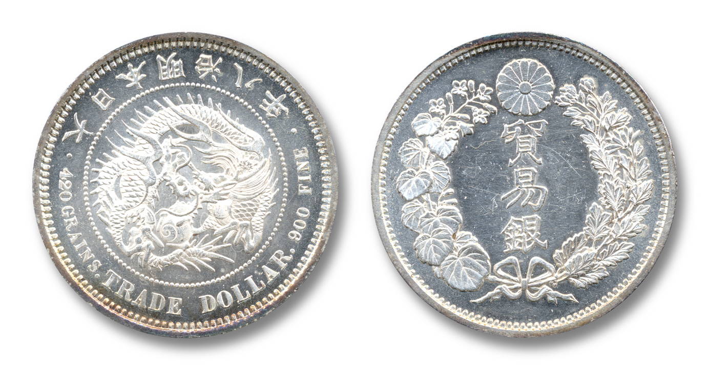 1 yen (Boekigin)-M8-silver